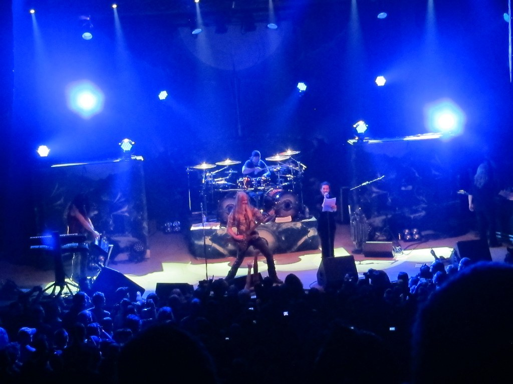 Nightwish performing live in Denver. This was their last show with Anette Olzon.